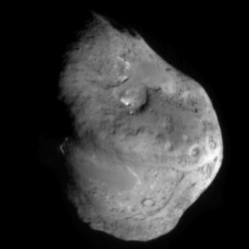 This image shows comet Tempel 1 approximately 5 minutes before Deep Impact's probe smashed into its surface. It was taken by the probe's impactor targeting sensor. The Sun is to the right of the image and reveals terrain varying in brightness by a factor of two. Shadows and bright areas indicate surface topography. Smooth regions with no features (lower left and upper right) are probably younger than rougher areas with circular features, which are probably impact craters. The probe crashed between the two dark-rimmed craters near the center and bottom of the comet. The nucleus is estimated to be about 5 kilometers (3.1 miles) across and 7 (4.3 miles) kilometers tall.